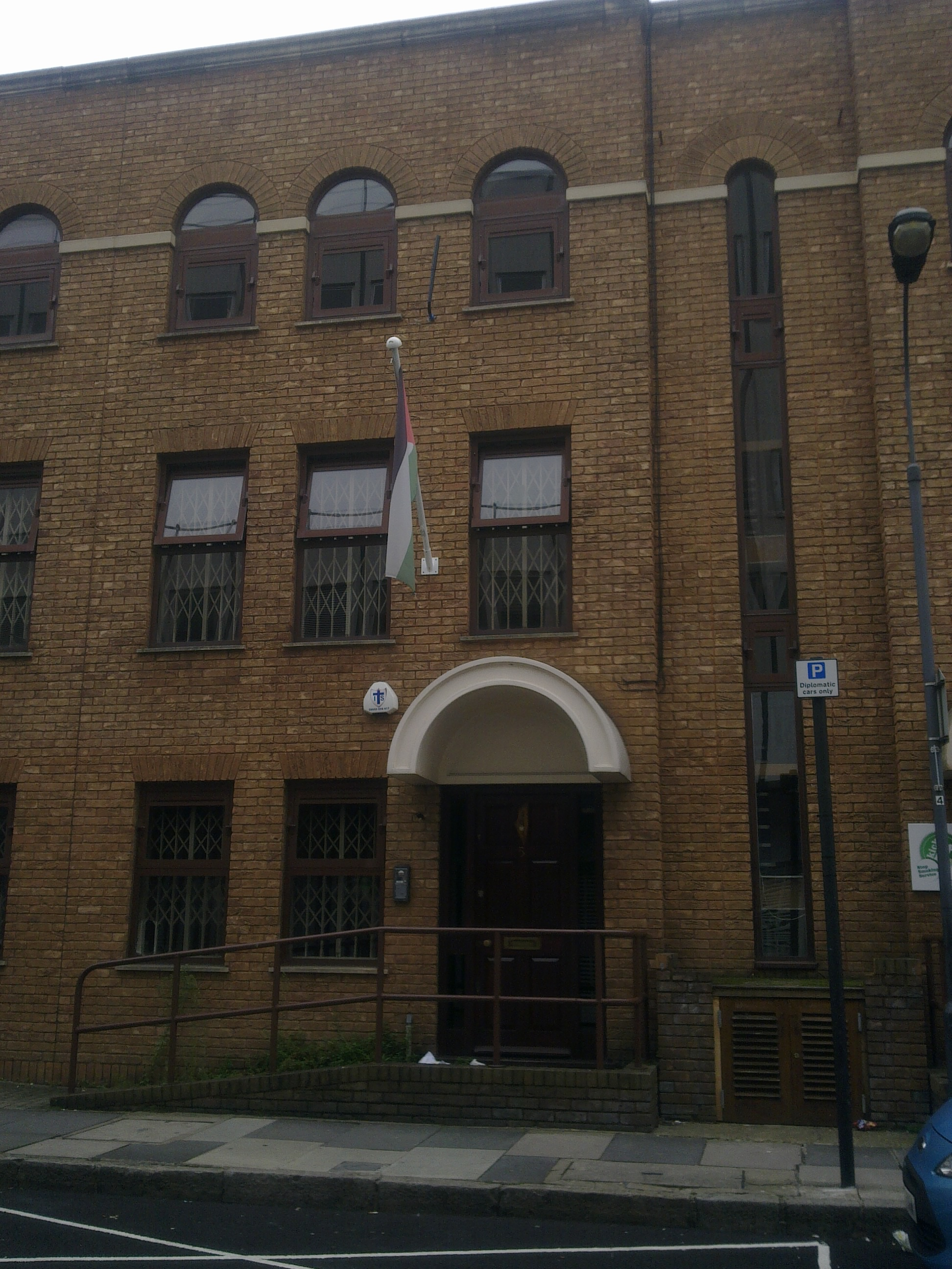 This is a photo of the Mission of Palestine in London, UK